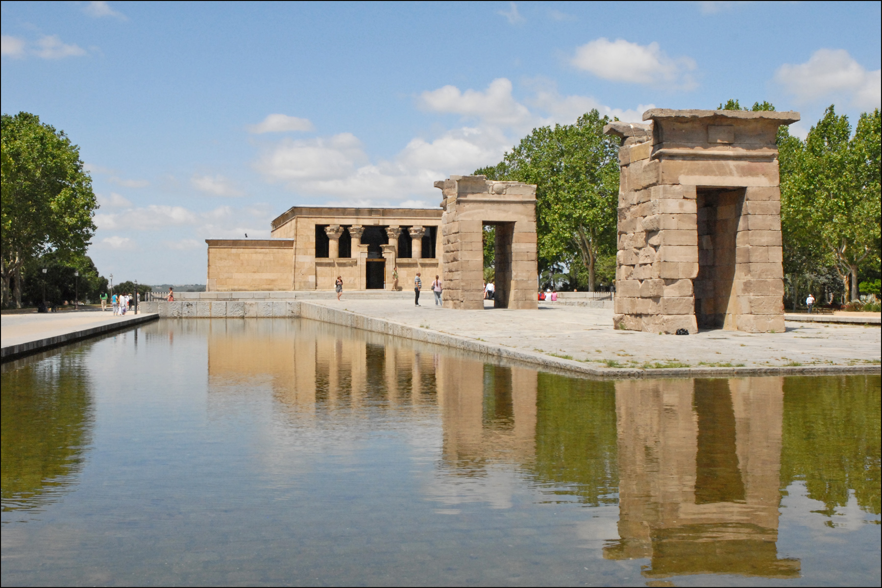 Temple of Debod in Madrid (Spain).